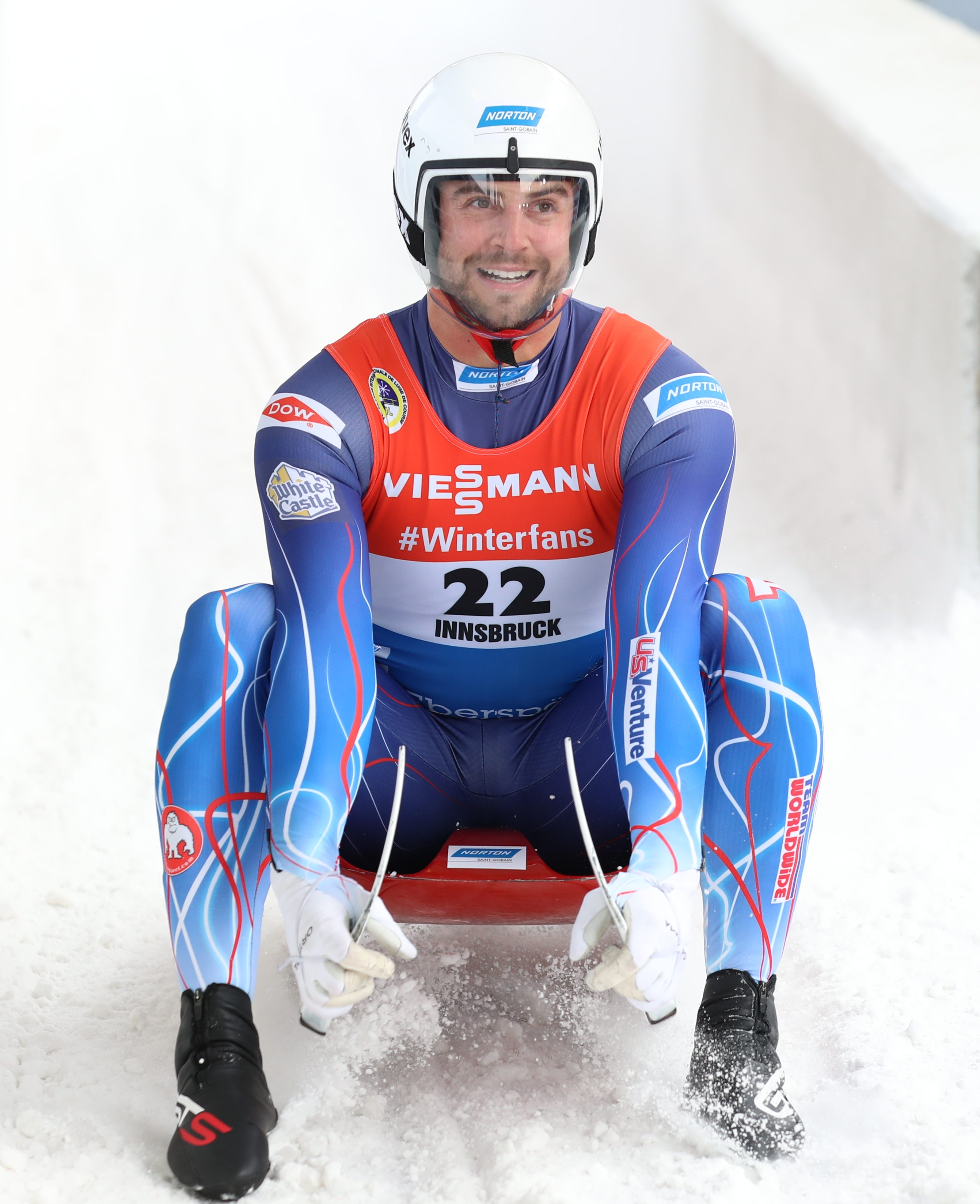 Men's World Cup race at the 2018/19 Luge World Cup in Innsbruck-Igls